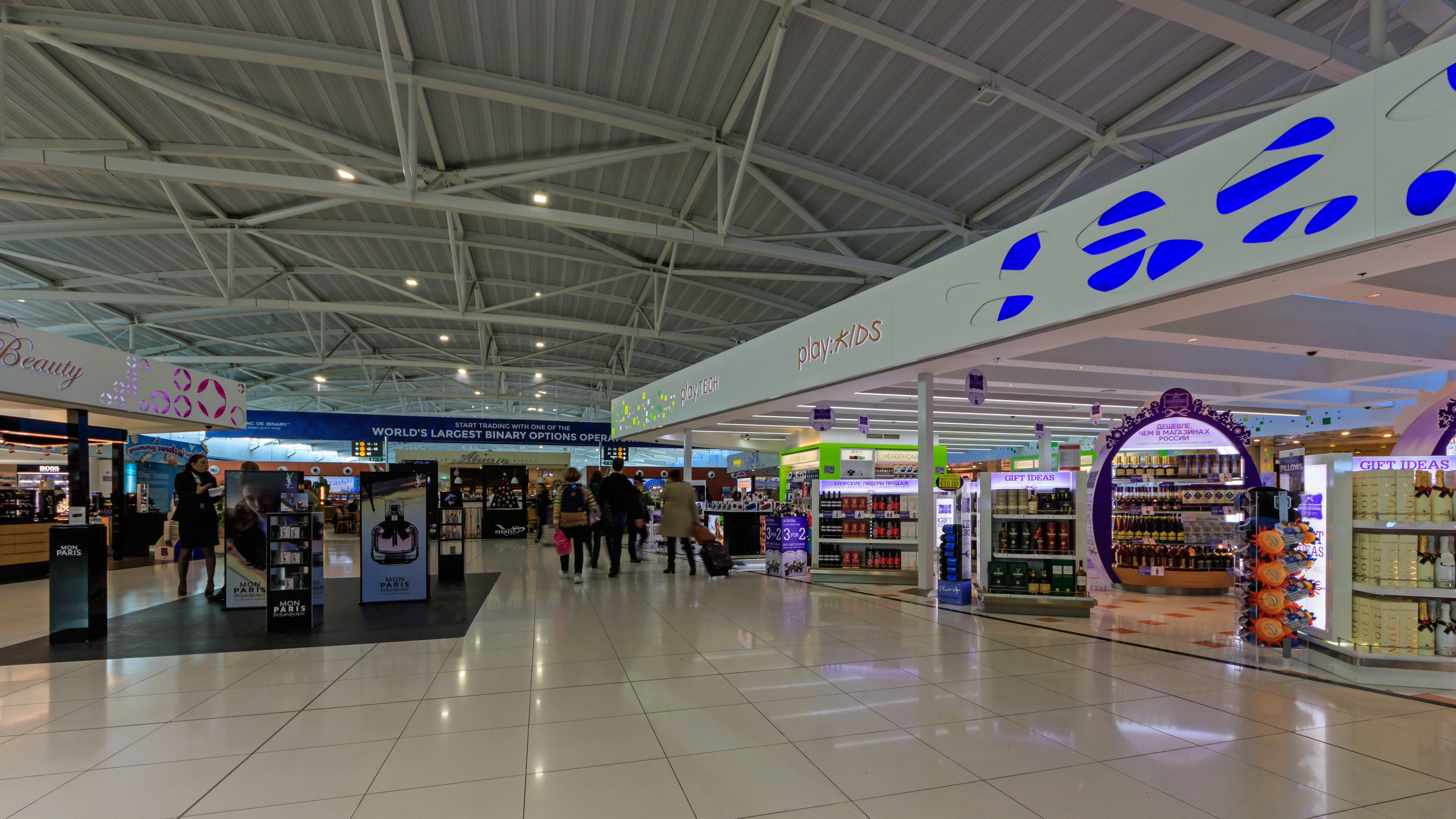 Larnaca International Airport, Cyprus: duty-free area